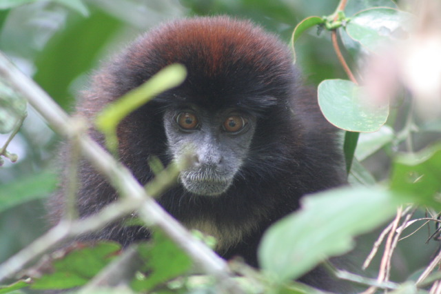 Yellow-handed titi monkey (Callicebus lucifer)